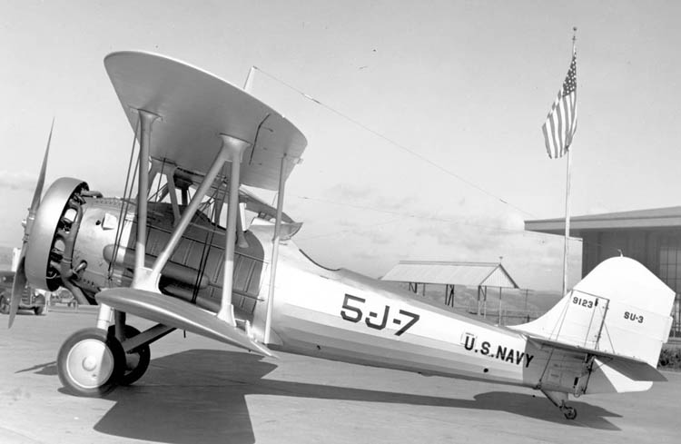 Vought SU-3 of VJ-5 (Utility Squadron Five, San Diego) at Oakland in 1937.